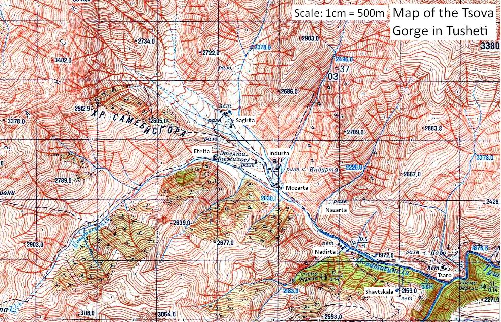 Map of the Tsova Gorge (“Tsovata”) in Tusheti showing the eight historic villages of the Bats people, abandoned since the first half of the nineteenth century